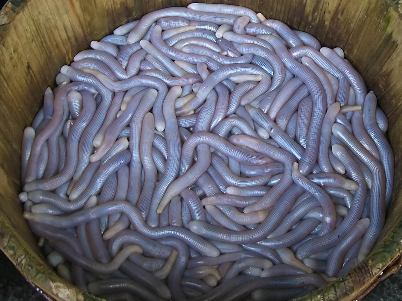 A bucket of delicious-looking purple worms (labeled 即劏北海沙虫—"'Sand worms' from Beihai, to be killed on demand") at a street vendor in Guangzhou. At 48 yuan per 500 g (around $7/lb), they look quite affordable... The second character in the sign (劏, in its simplified form), "to slaughter/to butcher", is peculiarly Cantonese. 粵語: 即劏北海沙虫